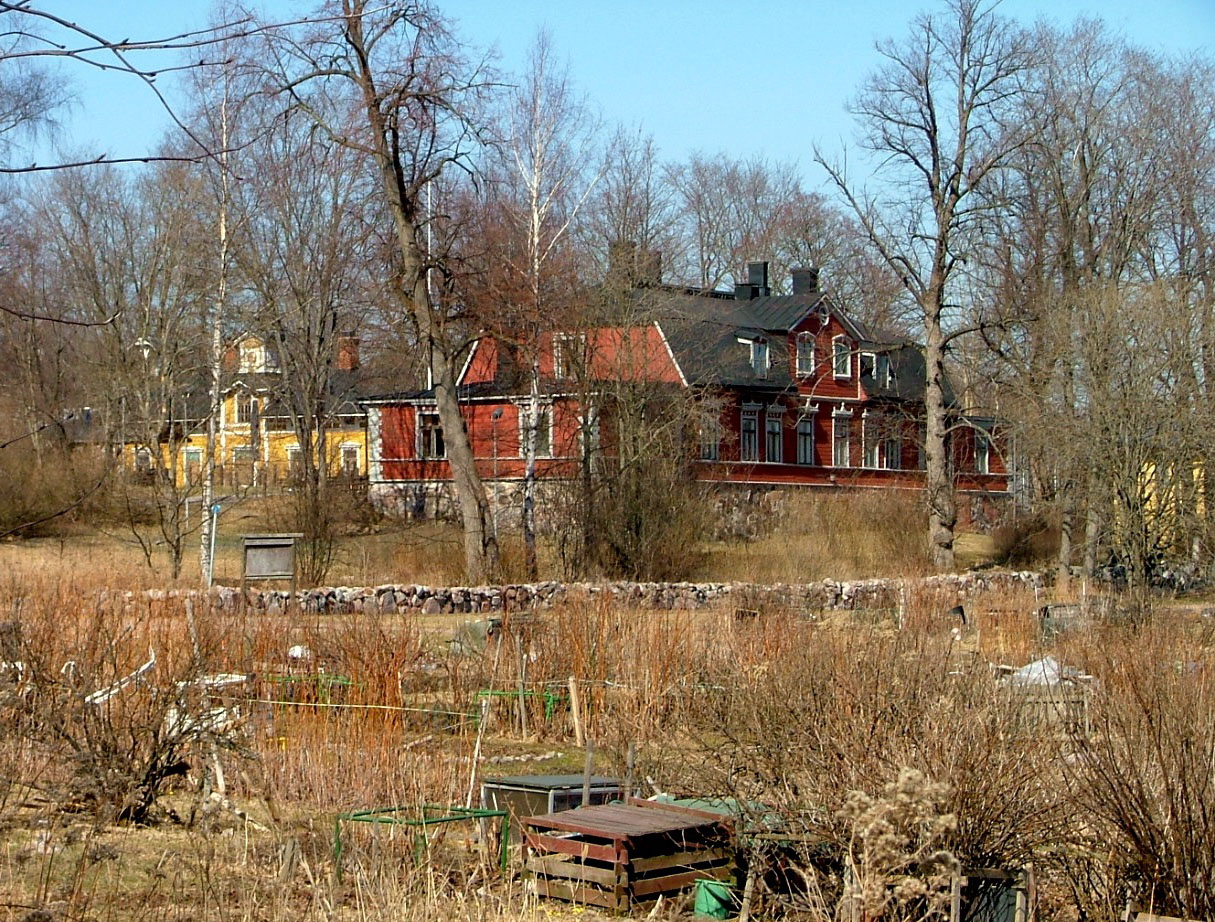 Puotila Manor in Eastern Helsinki, photographed in April 2009.